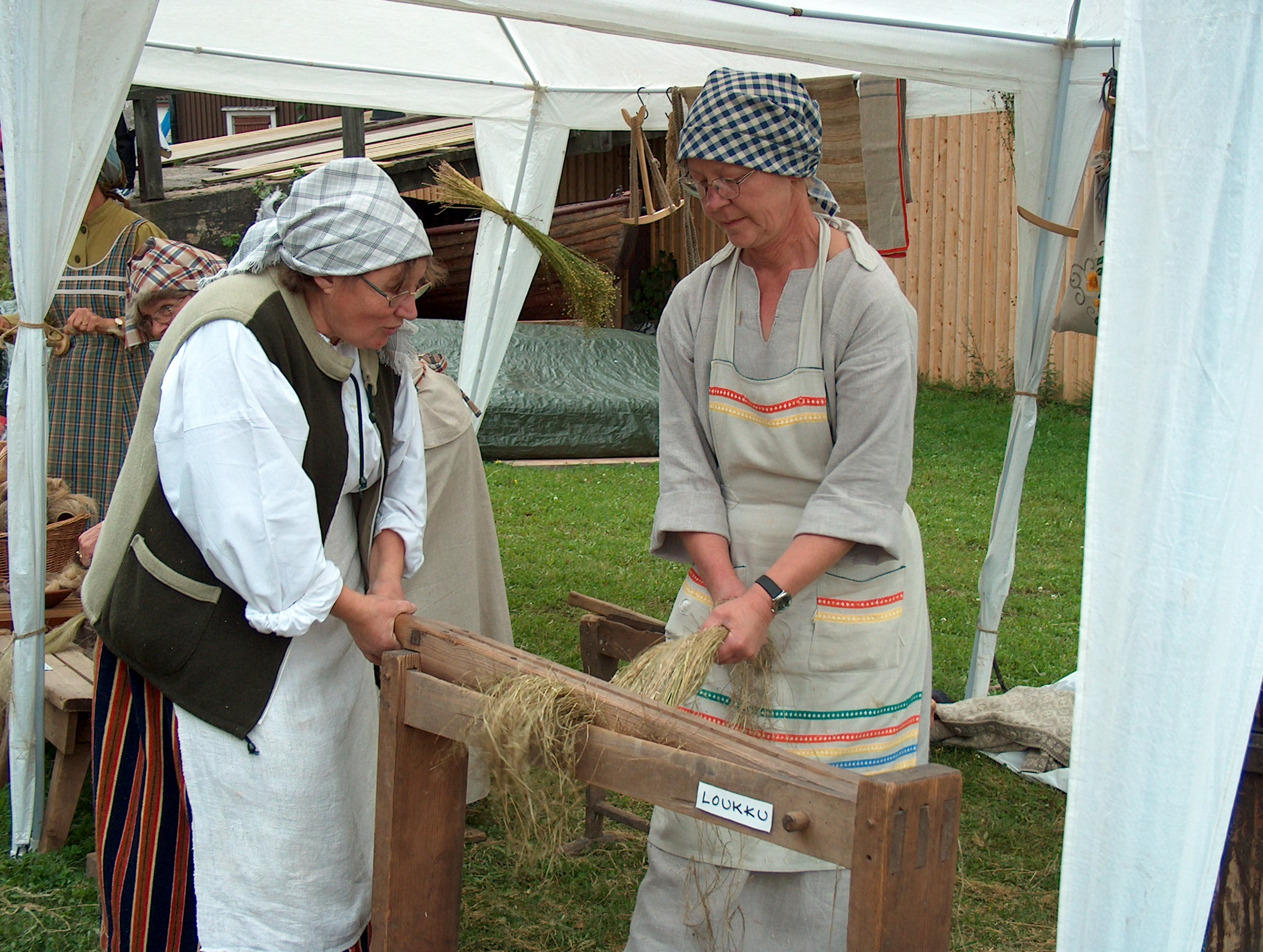 Breaking flax during Anttila Harvest Market in Tuusula, Finland